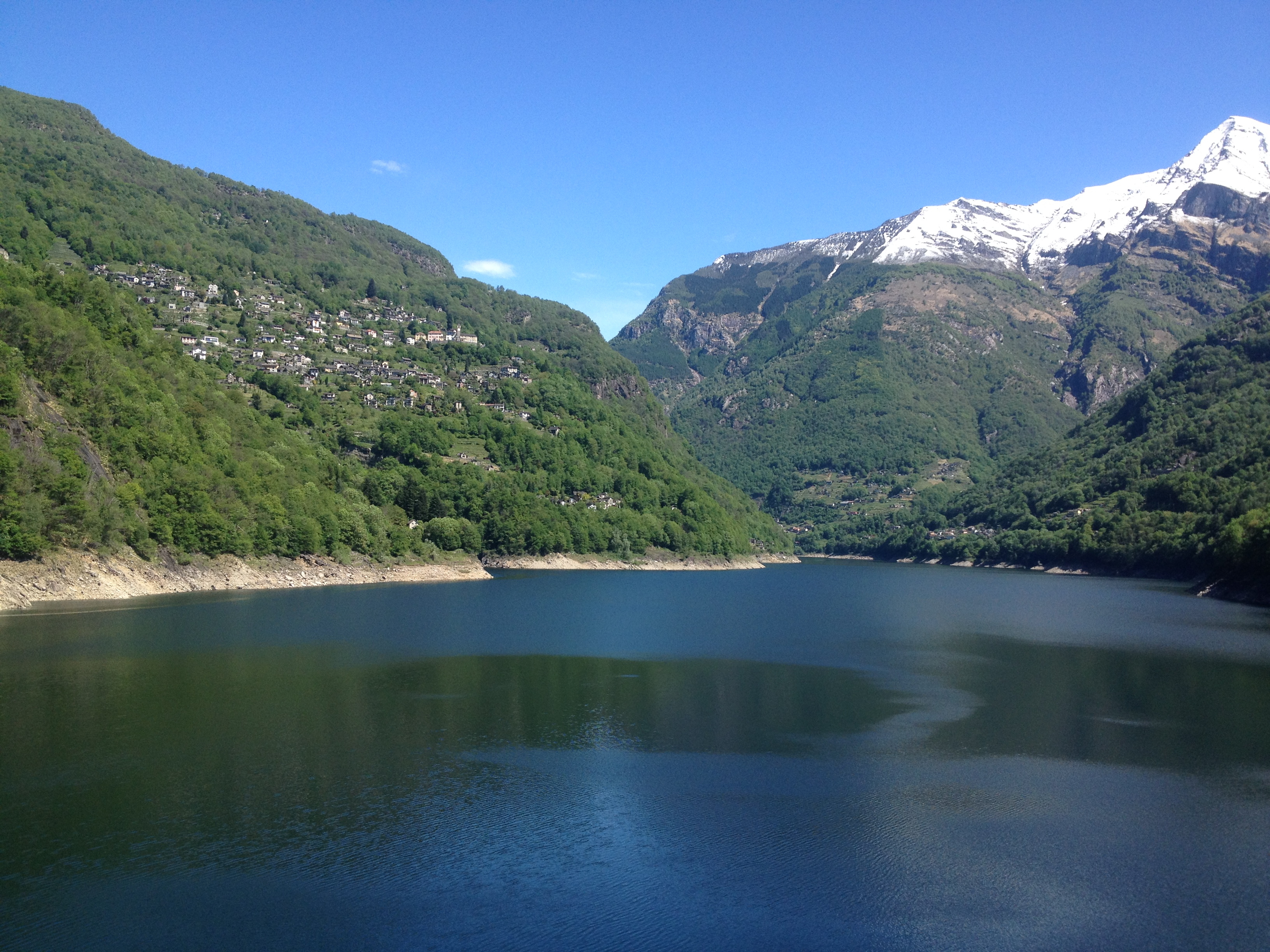 Lago Maggiore